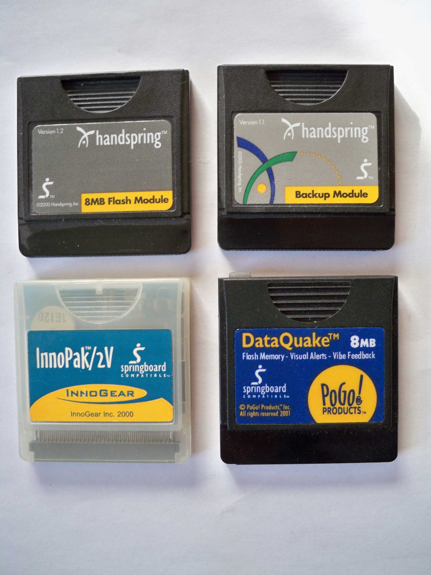 Springboard Expansion modules for PDA Handspring Visor: Flash Memory, vibration alarm, backup